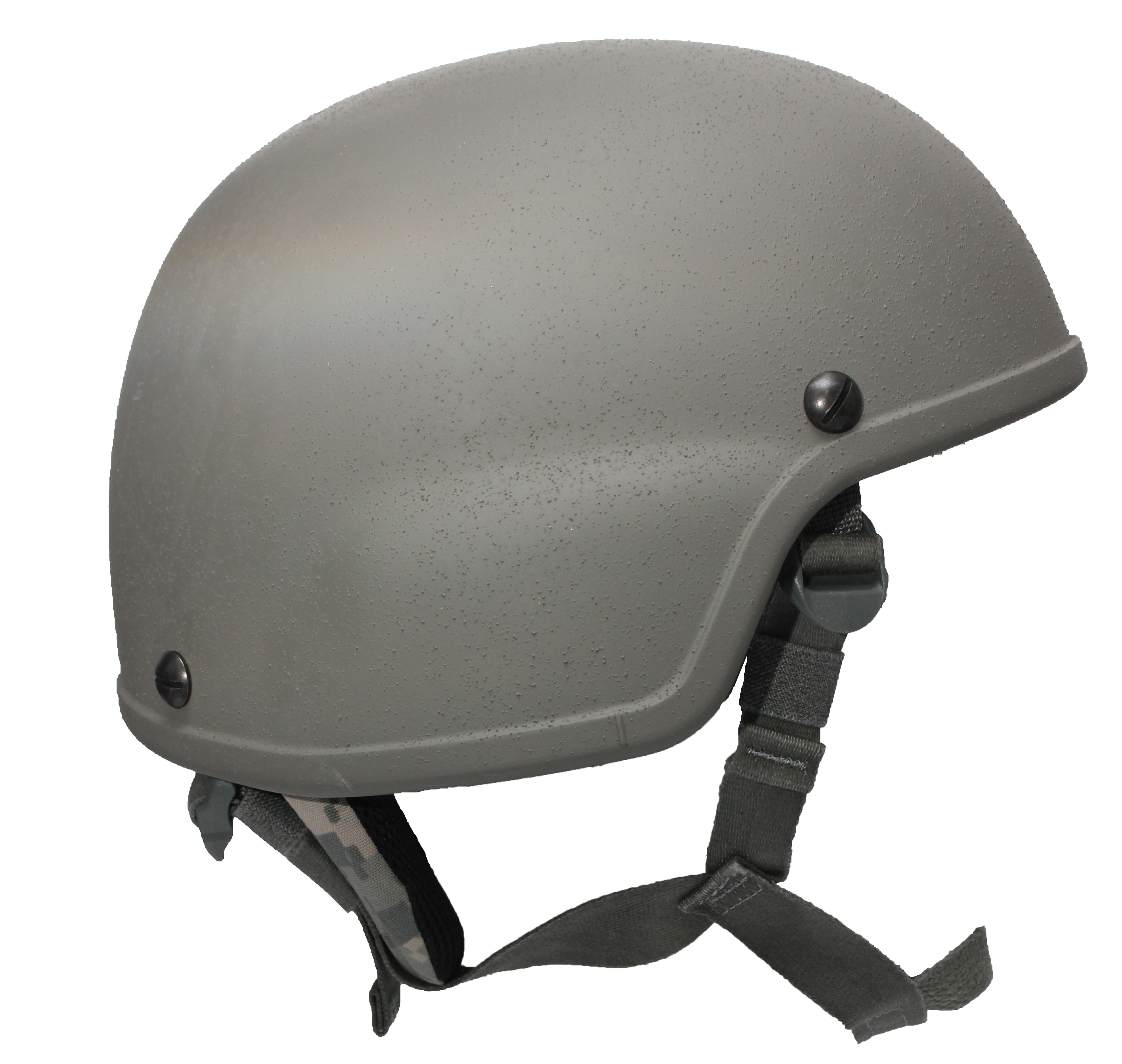 The thermoplastic Enhanced Combat Helmet